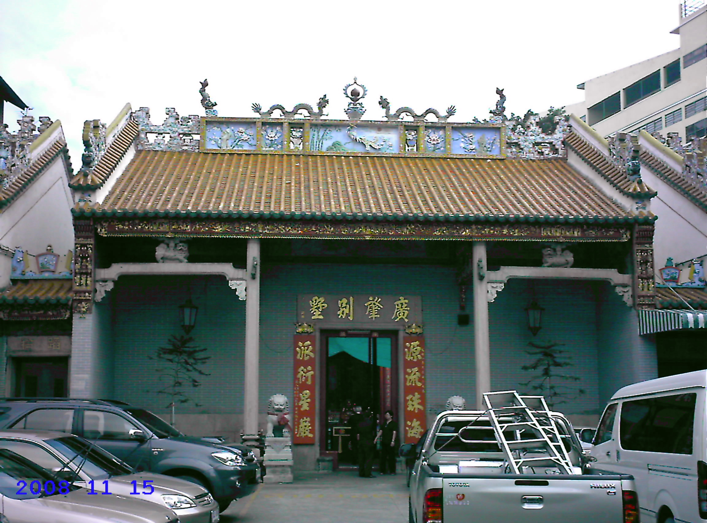 Temple, Kwong Siew Association of Thailand 中文（香港）: 泰國廣肇會館的「廣肇別墅」(又名：廣東神廟)